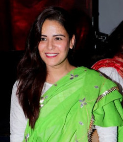 Mona Singh celebrating Janmashtami